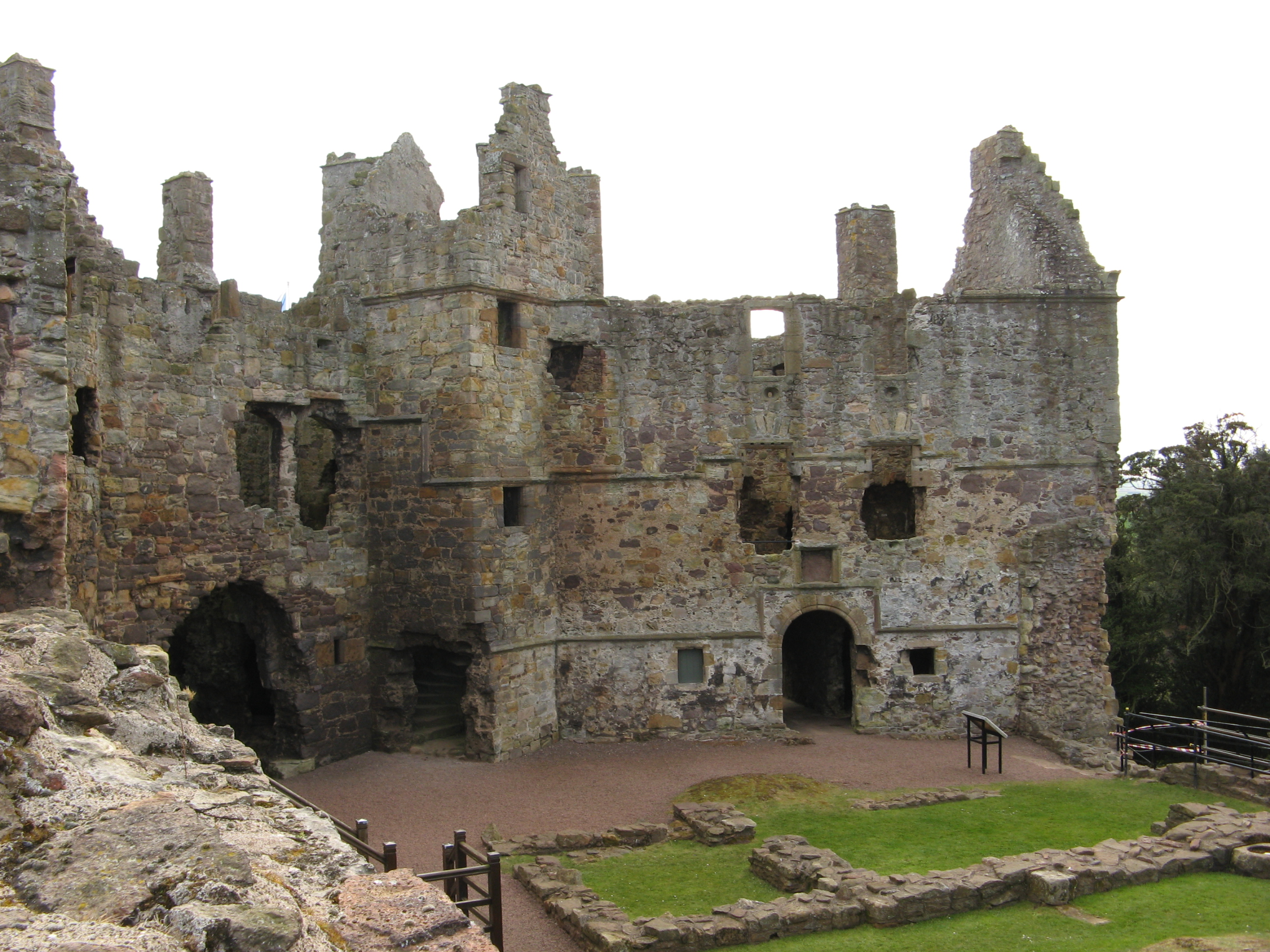 Dirleton Castle, East Lothian, Scotland. North facade of the 16th century Ruthven Lodging.